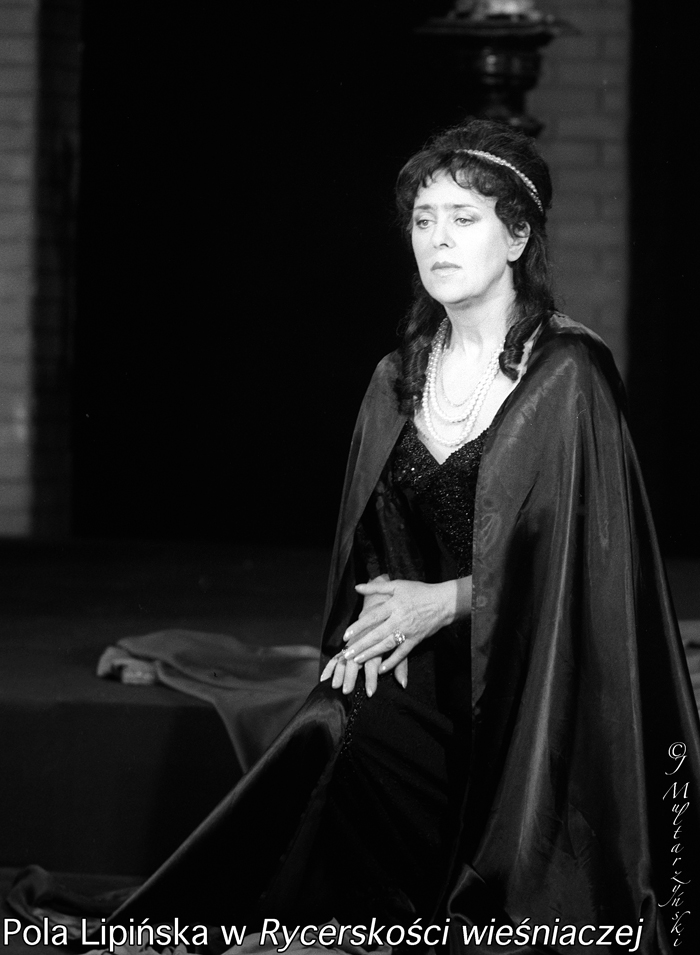 Pola Lipińska,Santuzza, TV, Warszawa